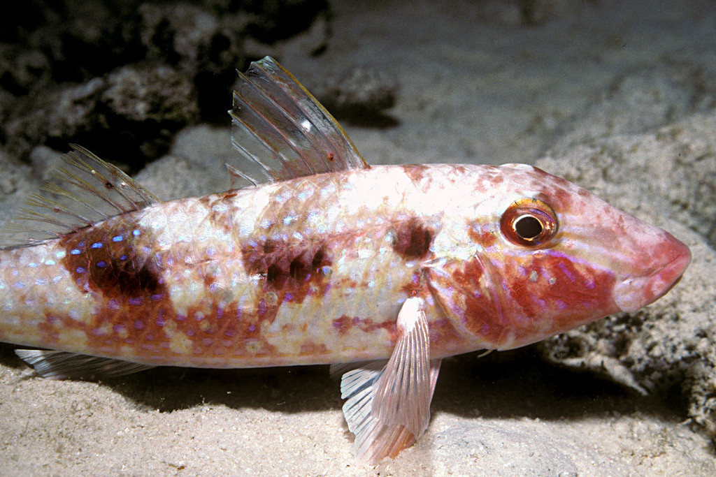 Spotted Goatfish (Pseudupeneus maculatus), inactive color phase. Taken at night, on Calabas Reef, Bonaire, Netherland Antilles with Kodachrome64, 35-80mm with +3 diopter, f/5.6, Ikelite substrobe 100 Ai at full power.